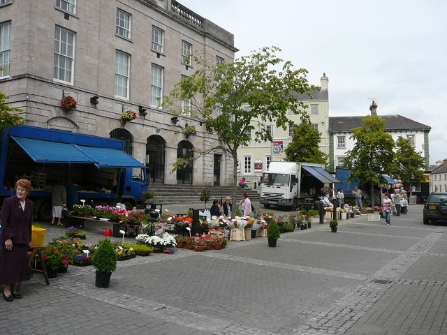 Armagh Library and open air market